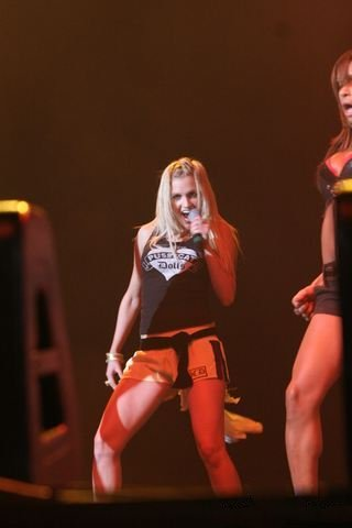 Ashley Roberts (left) and Melody Thornton at the Tacoma Dome in Washington.